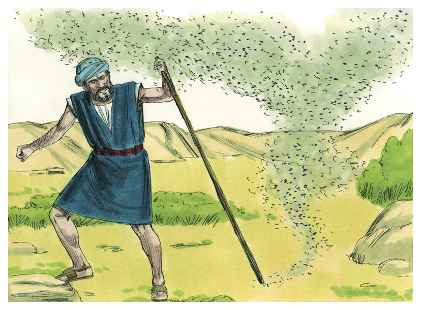 Biblical illustration of Book of Exodus Chapter 9